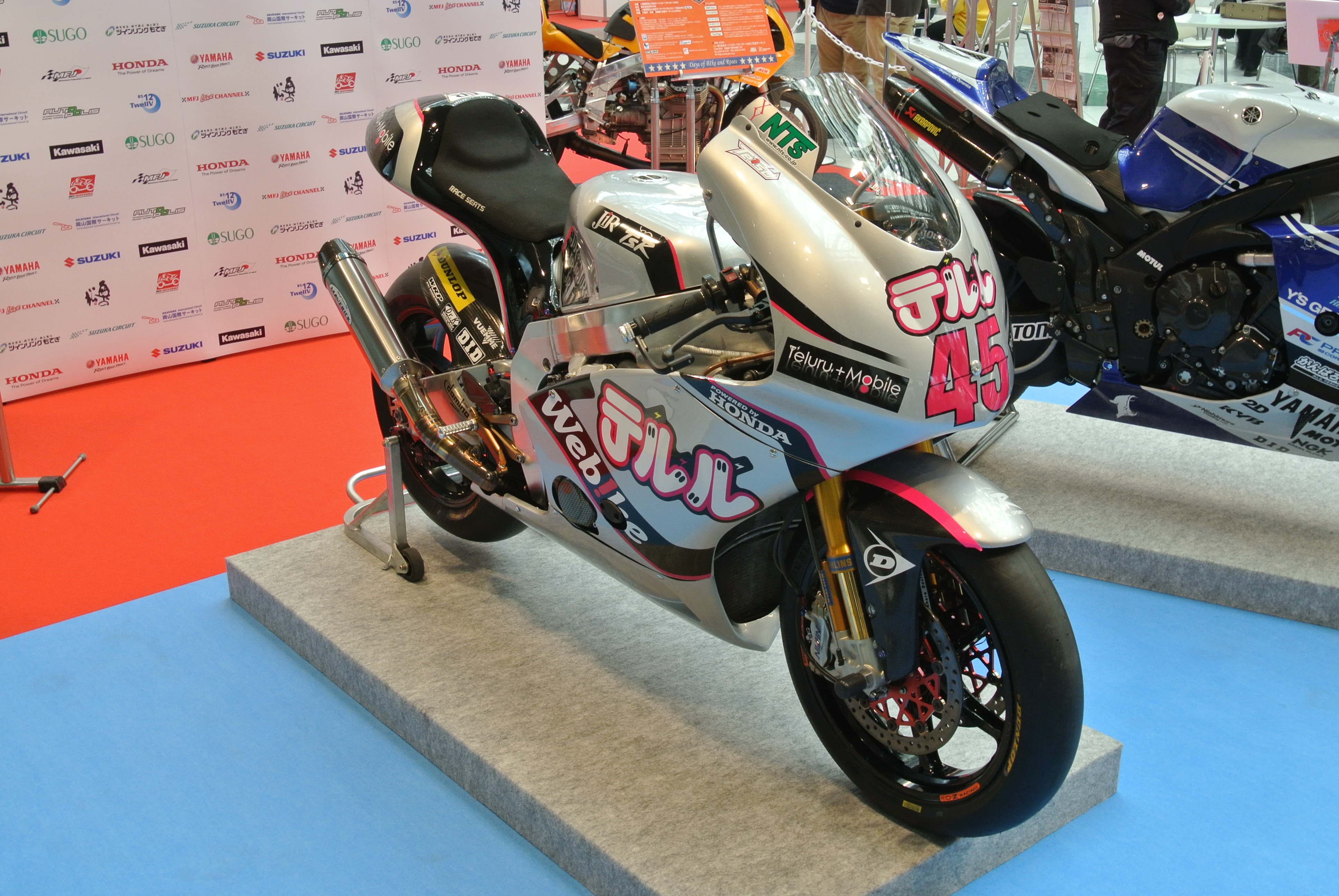 Teluru Team JiR Webike's TSR Honda at the Tokyo Motorcycle Show 2014